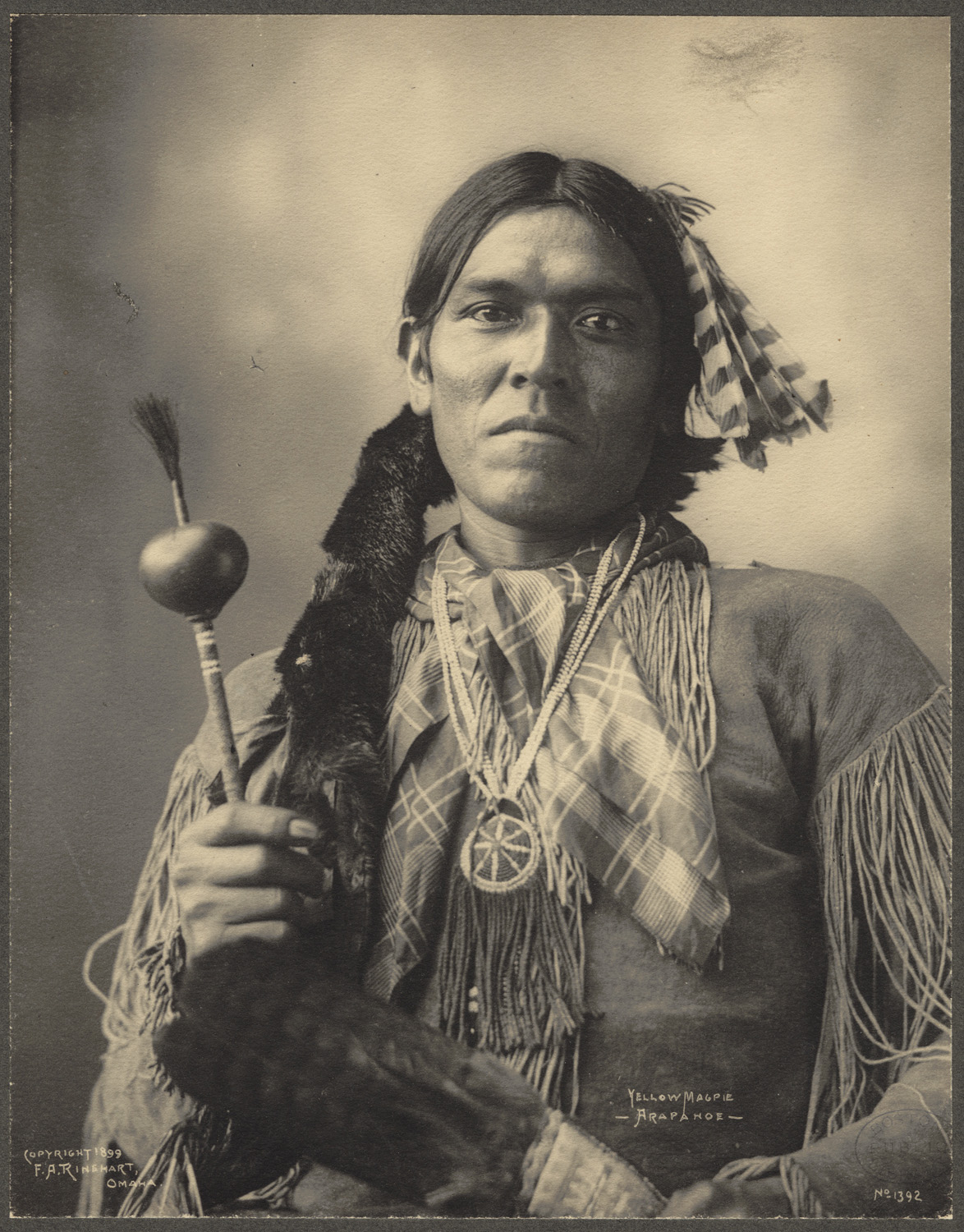 BPLDC no.: 09_03_000045 Title: Attendees of the 1898 Indian Congress : Yellow Magpie (Araphahoe) Creator: Frank A. Rinehart (1861-1928) Date created: 1898-1899 General format: platinum print photograph BPL Department: Print Department Description: Rinehart, a commercial photographer in Omaha, Nebraska, was commissioned to photograph the 1898 Indian Congress, part of the Trans-Mississippi International Exposition. More than five hundred Native Americans from thirty-five tribes attended the conference, providing the gifted photographer and artist an opportunity to create a stunning visual document of Native American life and culture at the dawn of the 20th century. Although the portraits are posed and artistically lighted in his studio, they have a candid intimacy that allows his subjects individuality and dignity, a quality not shared by most 19th-century ethnographic photography. Rinehart printed the photographs as platinum prints, a photographic medium known for its delicate tonal range and permanence.